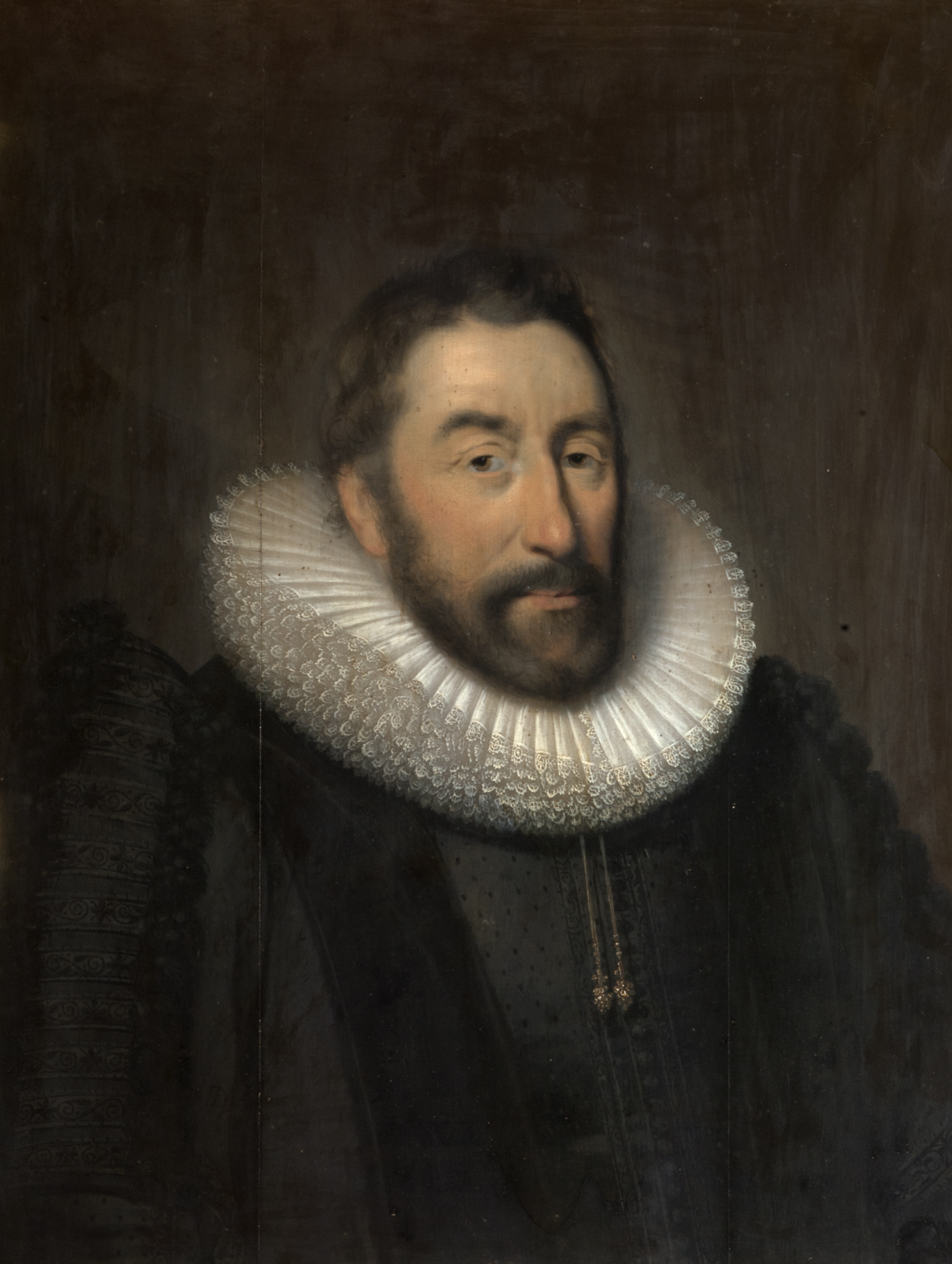 A 1631 82 x 57 cm oil-on-canvas portrait painting of Walter Pye by Cornelis Janssens van Ceulen held at Wallington Hall